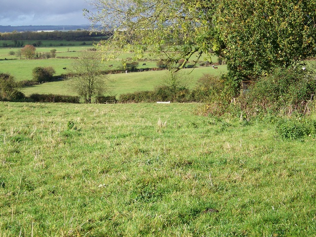 Footpath near Seend Cleeve The footpath takes walkers across fields to join the tow path of the Kennet and Avon Canal.